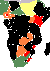 Paritally derived from Modification of Image:Sub-Saharan-Africa.png with B*8101 frequencies in subsaharan Africa. Red = 3+% allele frequency, Orange = 1 to 3%, Yellow = 0 to 1%, Black = unknown frequency. Based on allele frequencies